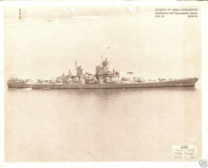 A June 1943 Division of Naval Intelligence, Identification and Characteristics Section print of a 7 April 1943 photo of USS Iowa (BB-61).